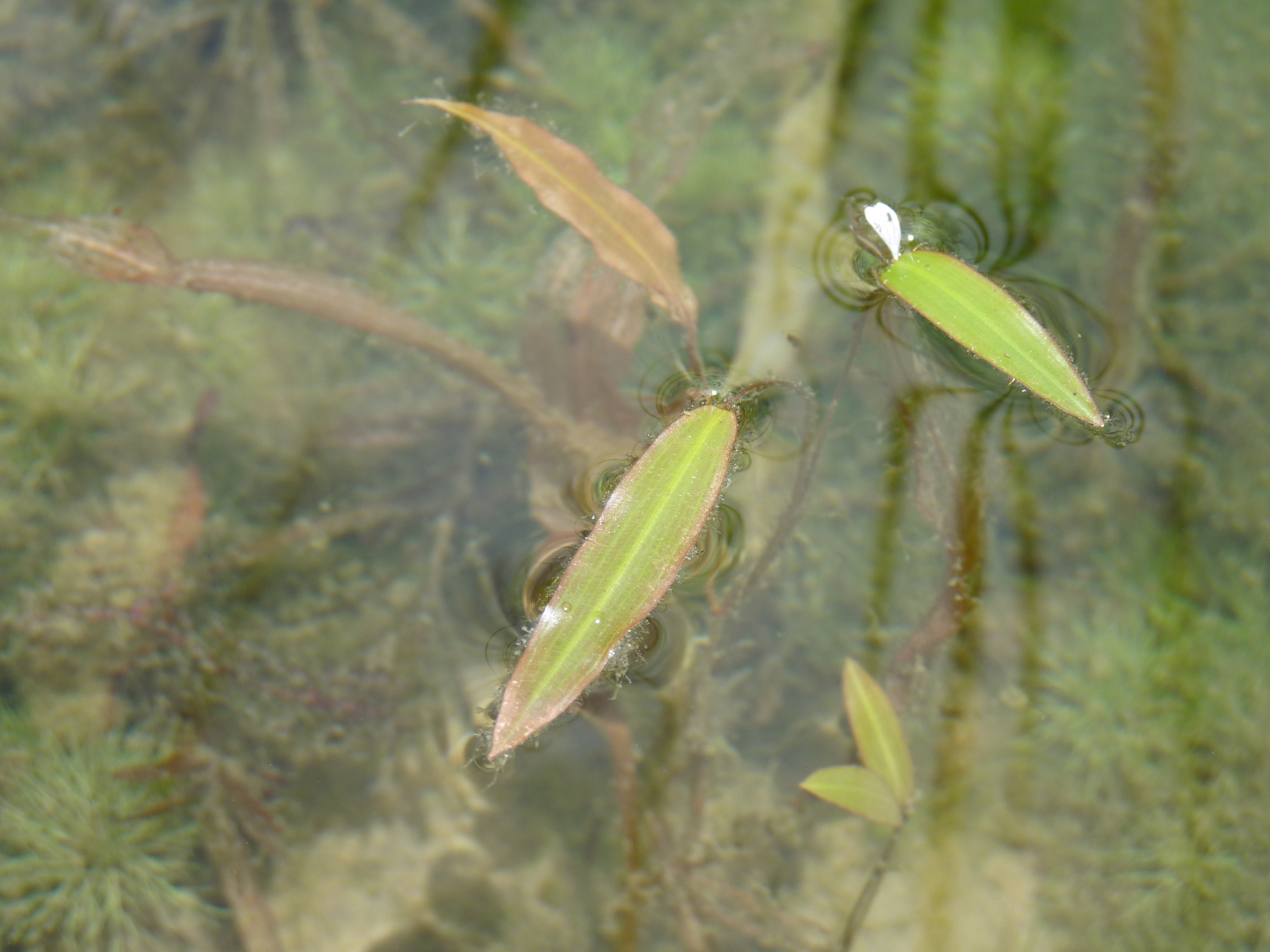 Potamogeton distinctus